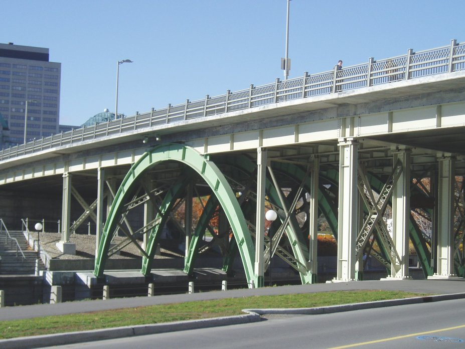 The Laurier Avenue Bridge in Ottawa, taken by SimonP